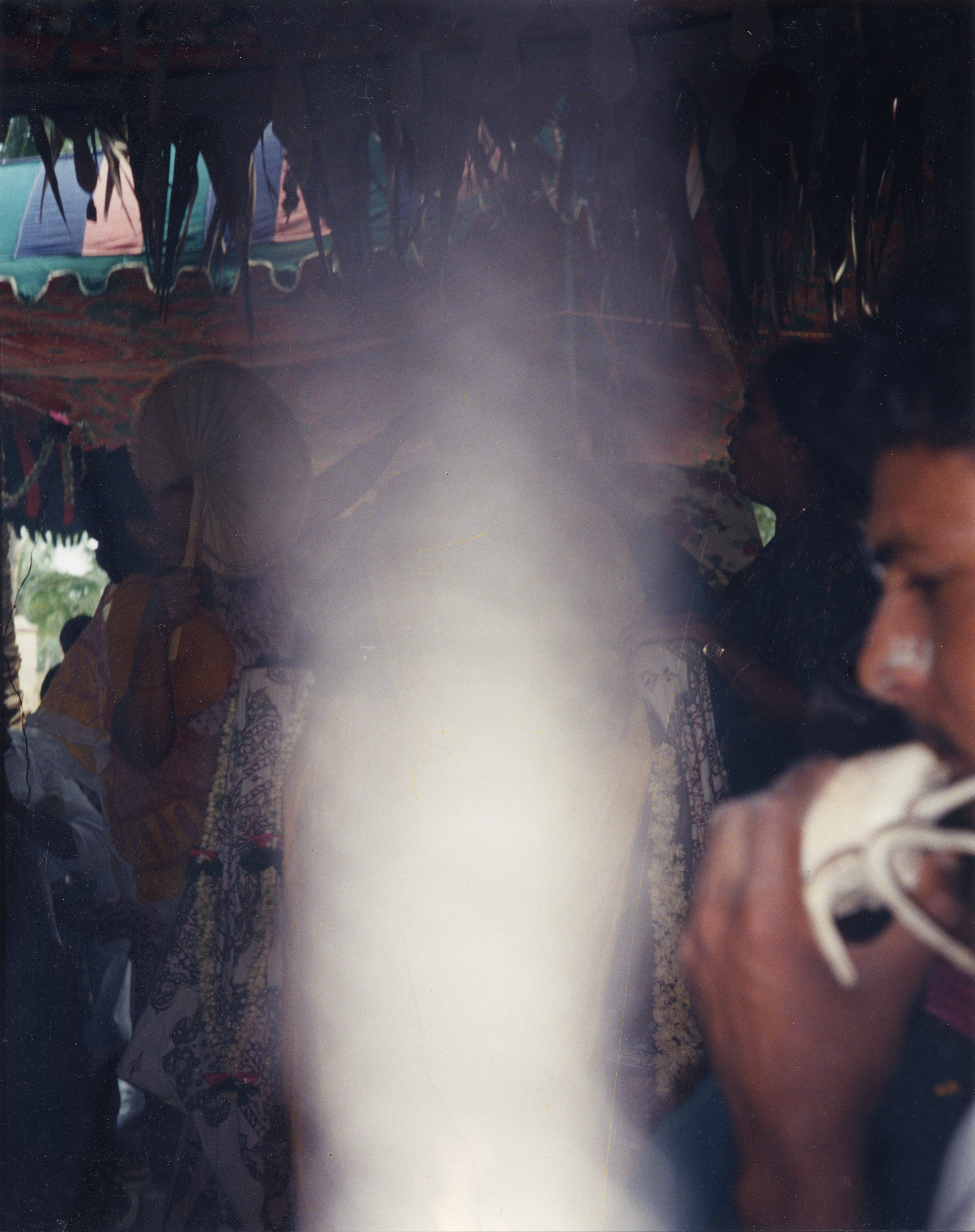 Photo of Shivabalayogi's body taken on April 2, 1994, shortly before it was interred in the Samadhi (tomb) in Adivarapupeta, India. This light with concentric circles was not visible to the eye but appeared on the negative. Photo taken by Tom Palotas.